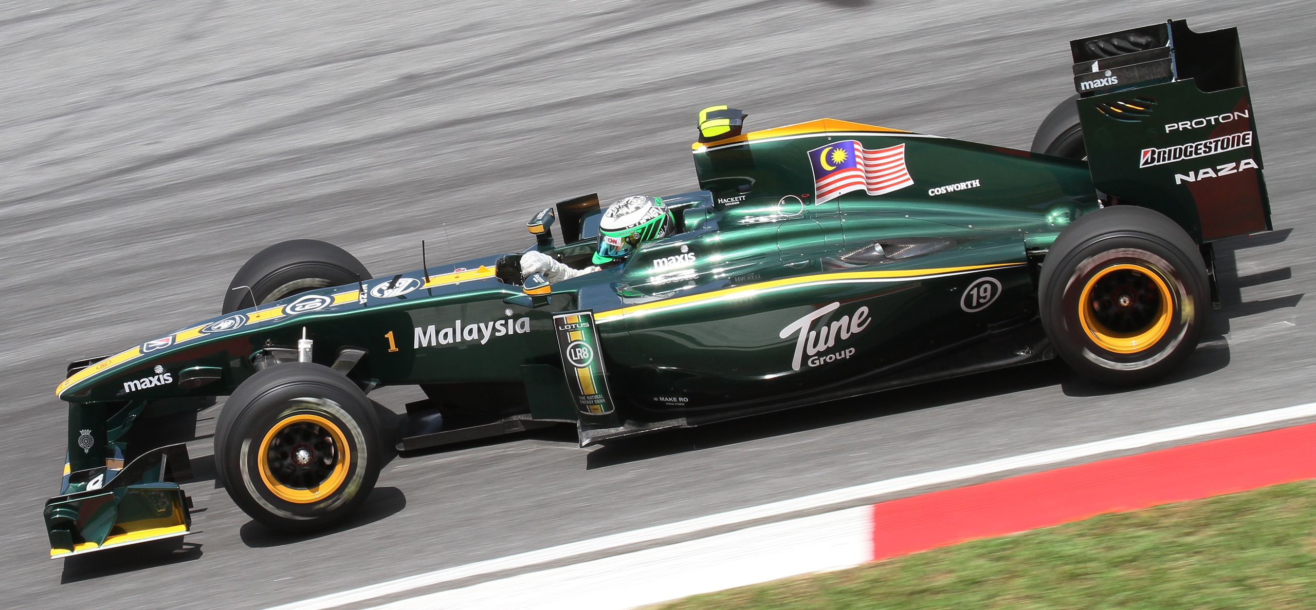 Formula One 2010 Rd.3 Malaysian GP: Heikki Kovalainen (Lotus) during Friday 2nd Free Practice session.